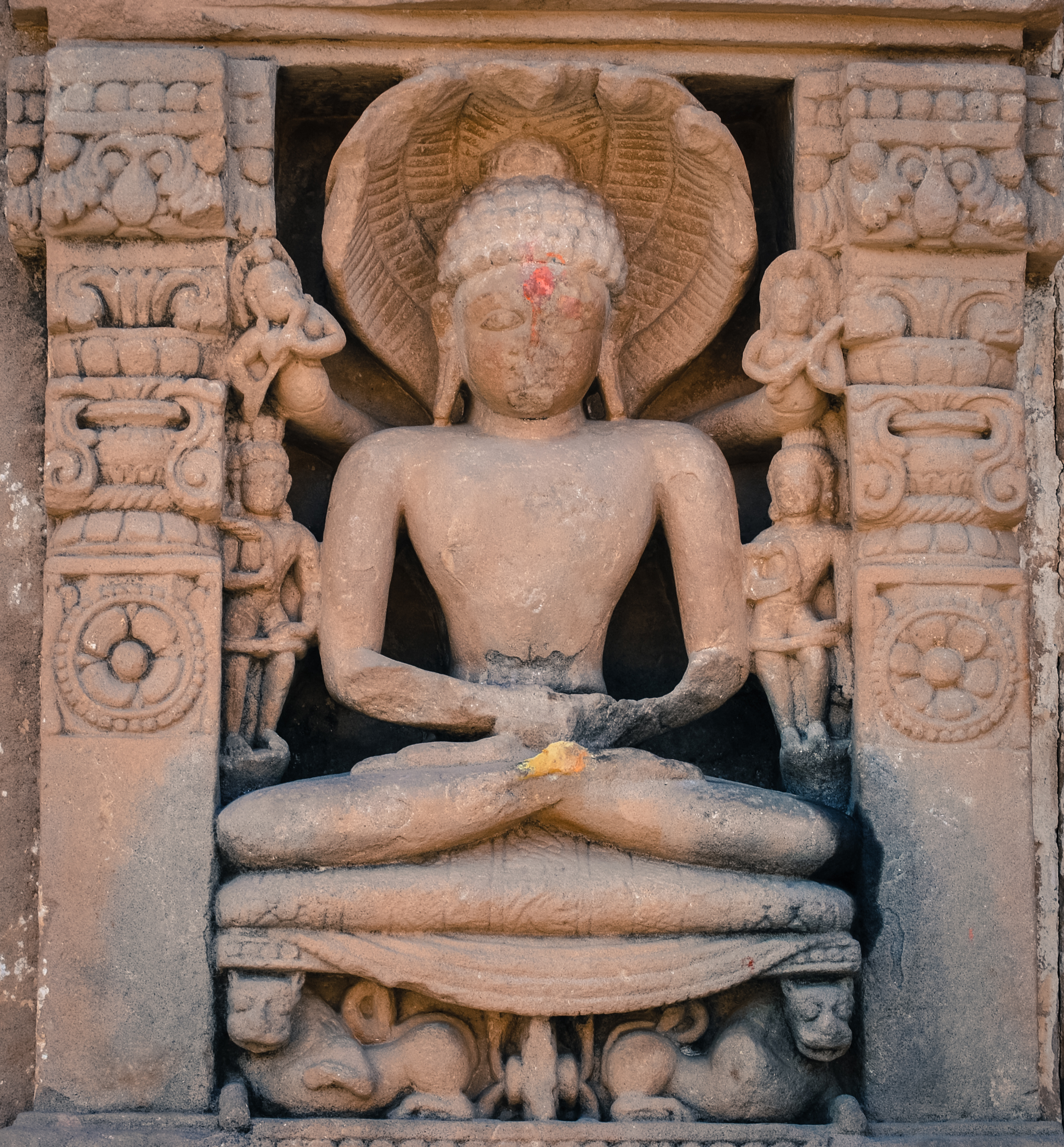 The temple and Architecture of Osiya, Rajasthan